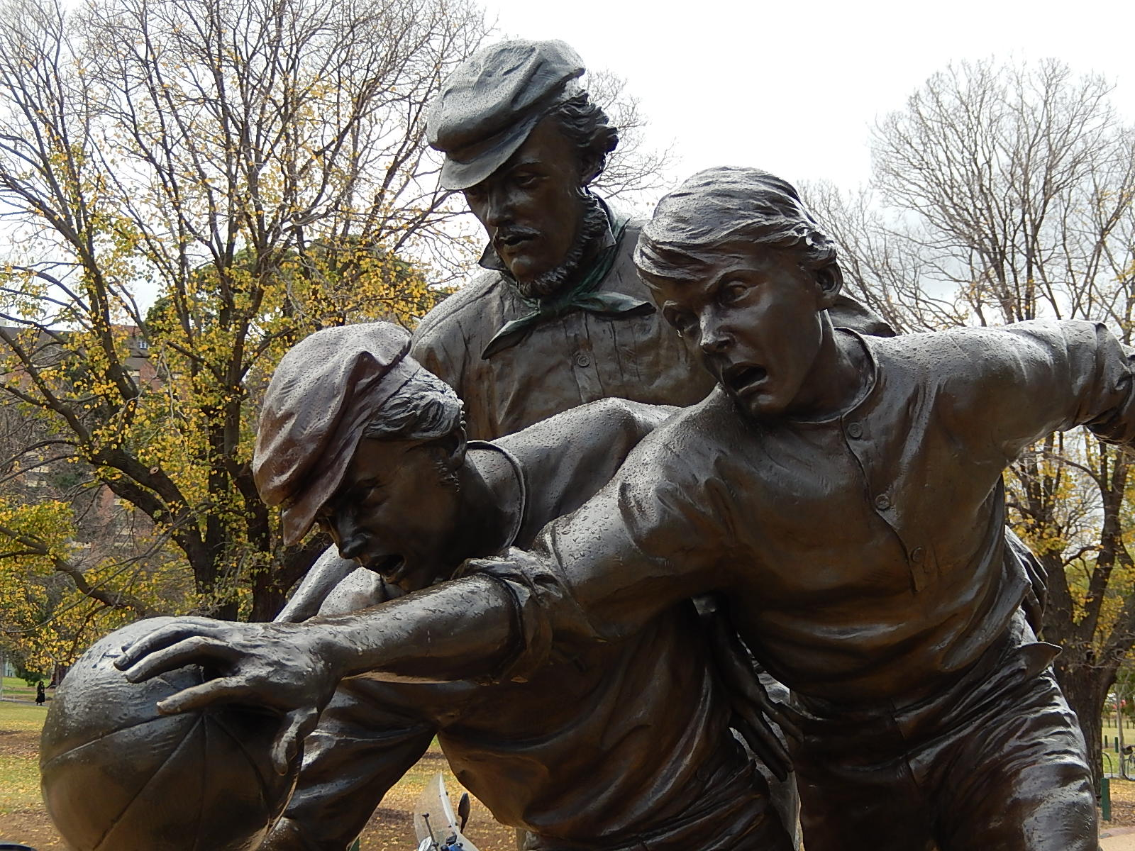 Statue of Tom Wills, commemorating the first Australian rules football match, Melbourne Cricket Ground